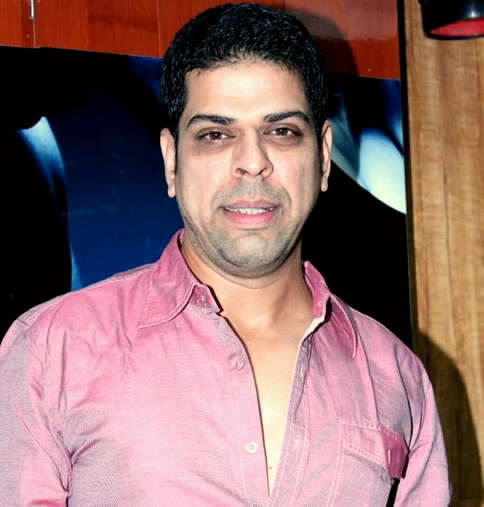 Murali Sharma at the launch of Raju Kariya's Gym 'Workouts'